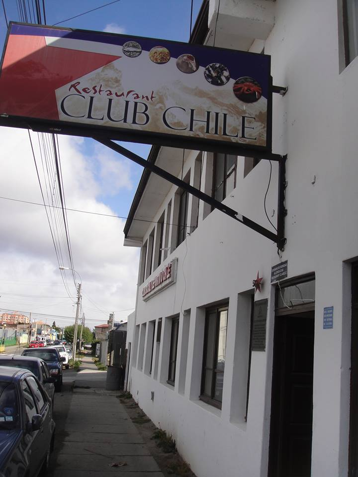 Club Chile